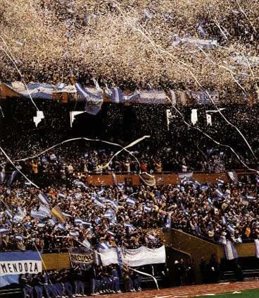 Estadio Monumental during World Cup final 1978